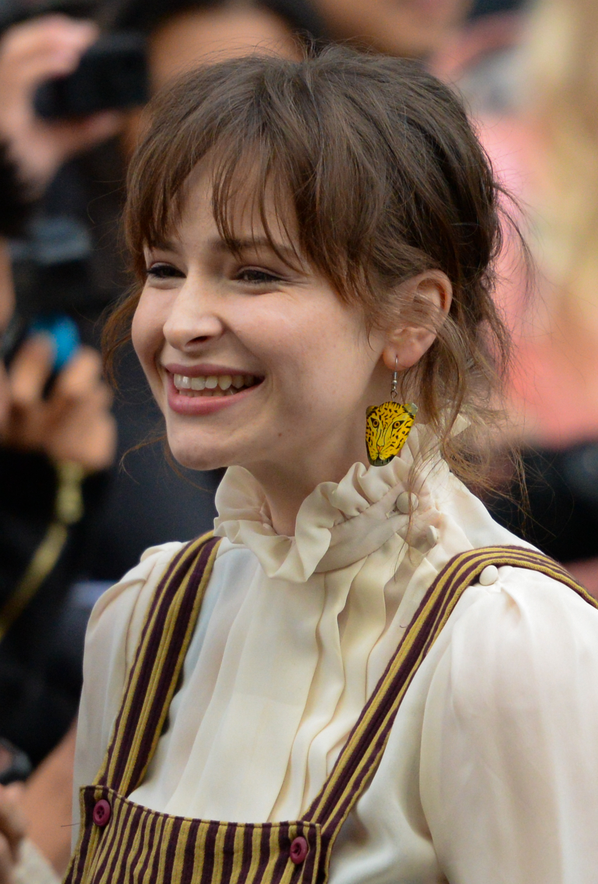 TIFF 2019 Ashleigh Cummings (1 of 1)